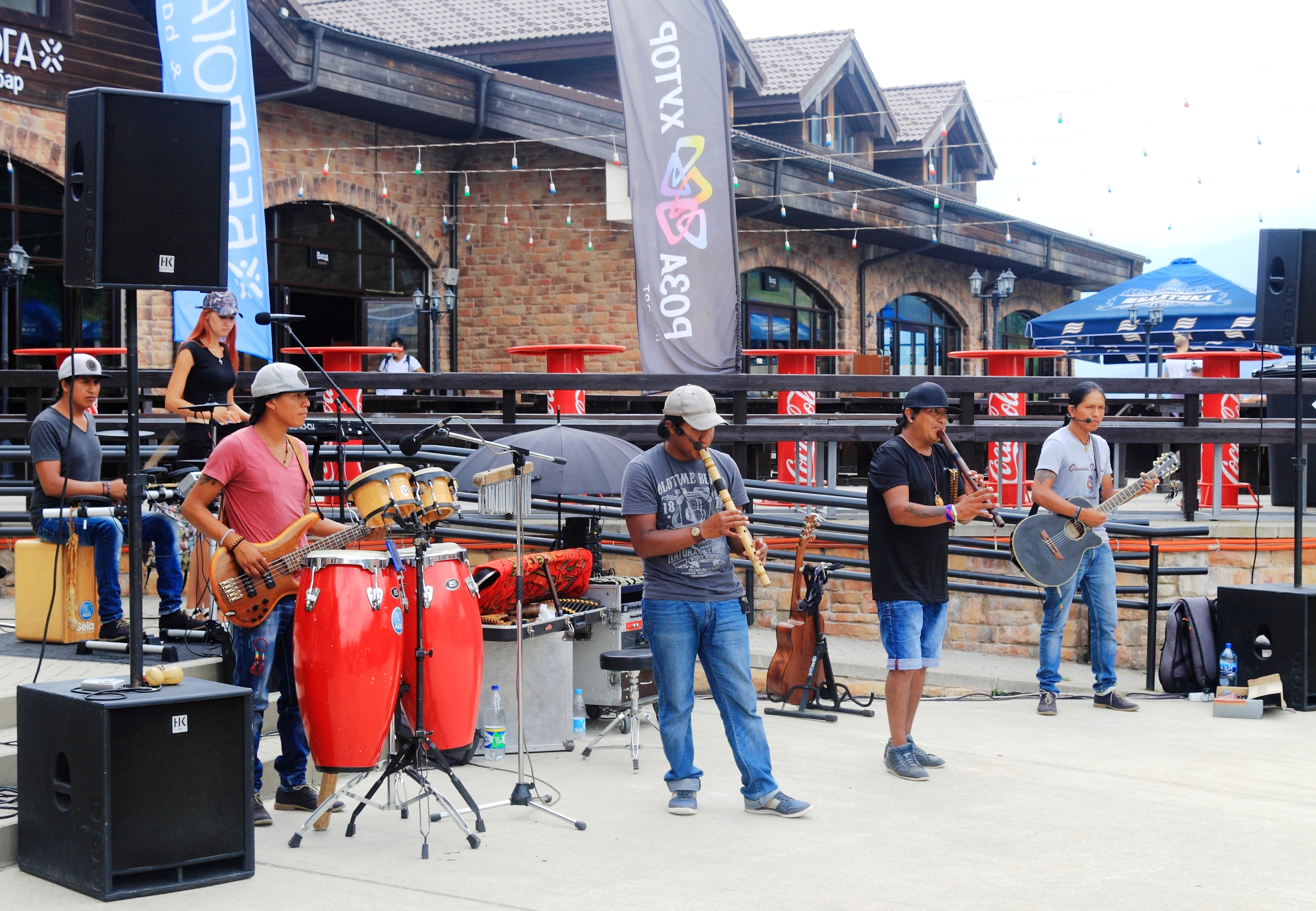 Street musicians from Ecuador